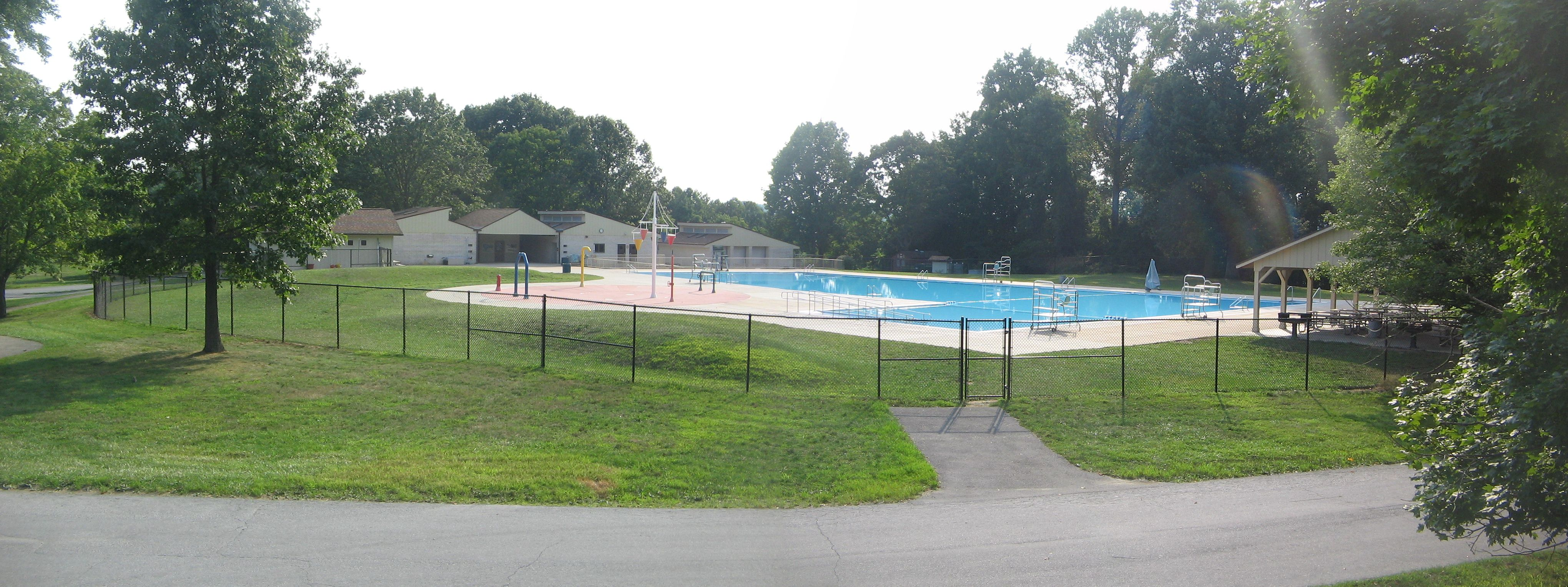 Pool at Marsh Creek State Park in Upper Uwchlan and Wallace Townships, Chester County, Pennsylvania in the United States